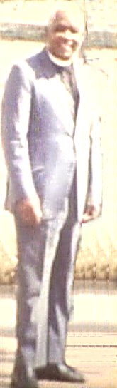 Bishop S U Hastings at Christiana Moravian Church, Jamaica c1973.